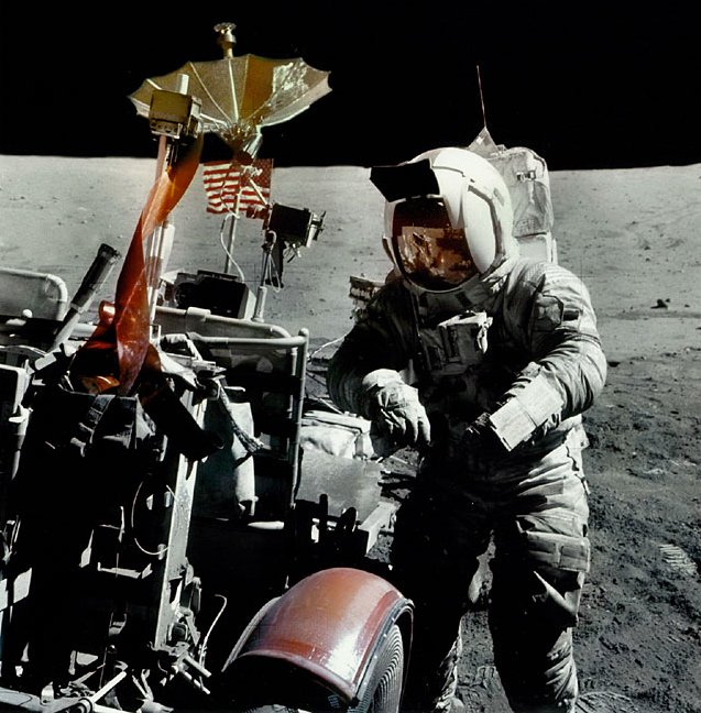 John W. Young (Apollo 16)